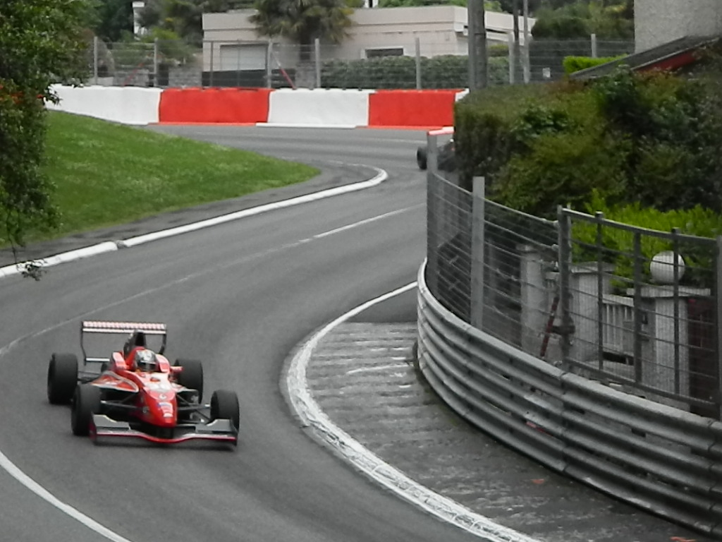 Norman Nato @ Pau Grand Prix 2012. Formula Renault 2.0 ALPS.